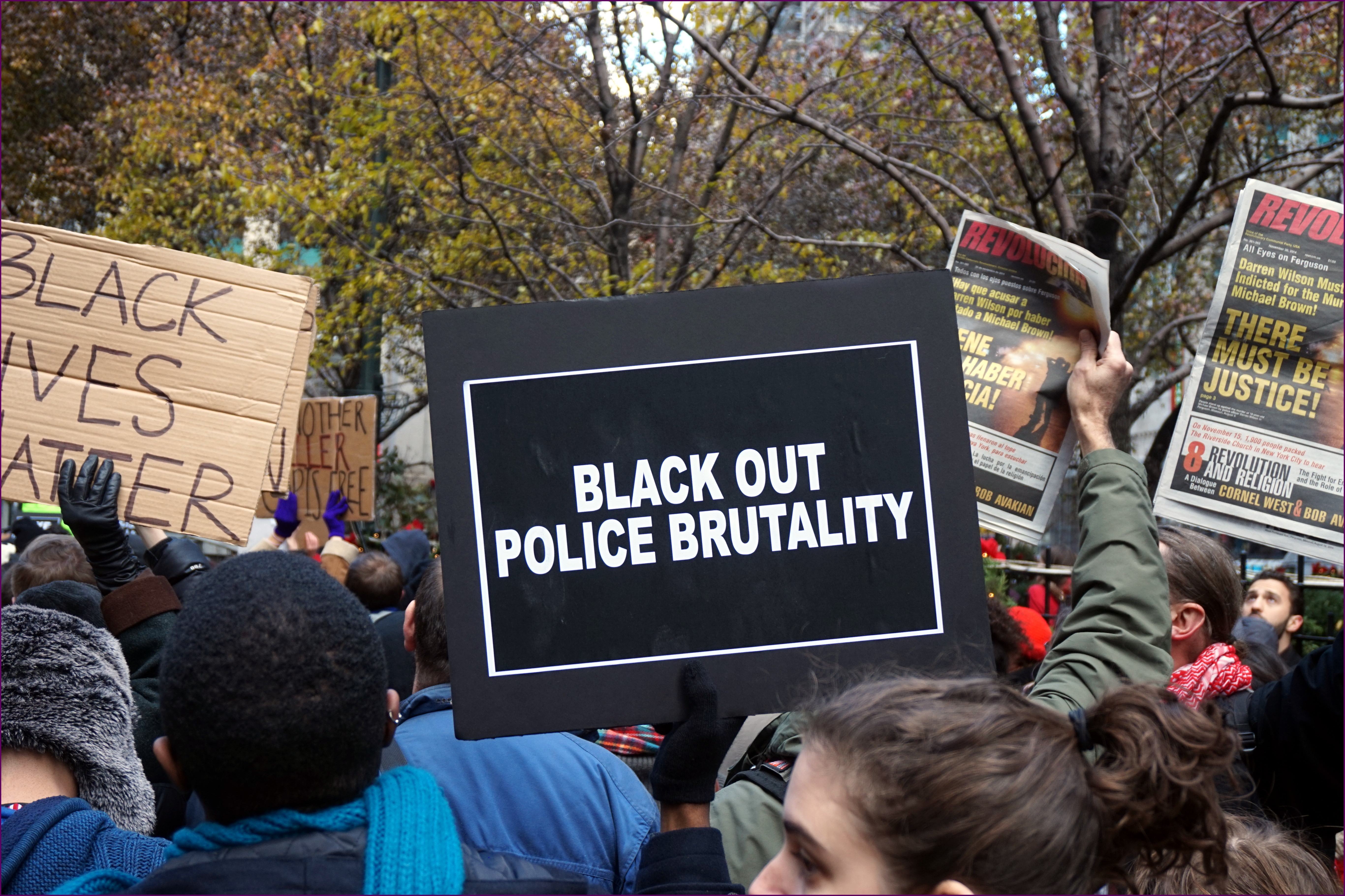 NYC action in solidarity with Ferguson. Mo, encouraging a boycott of Black Friday Consumerism.